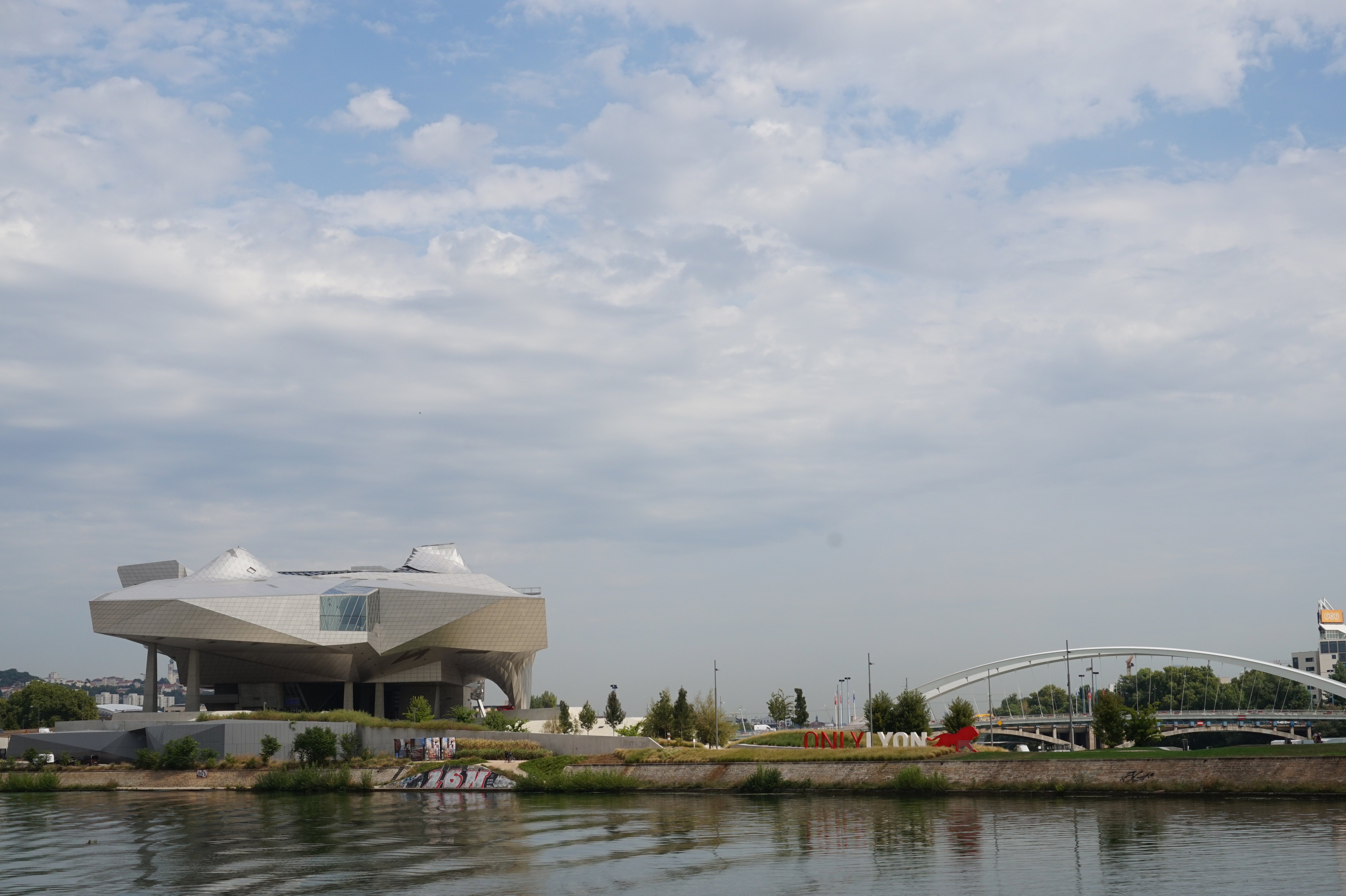 The Musée des Confluences and Pont Pasteur seen from the confluence of the Rhone and the Saône rivers.